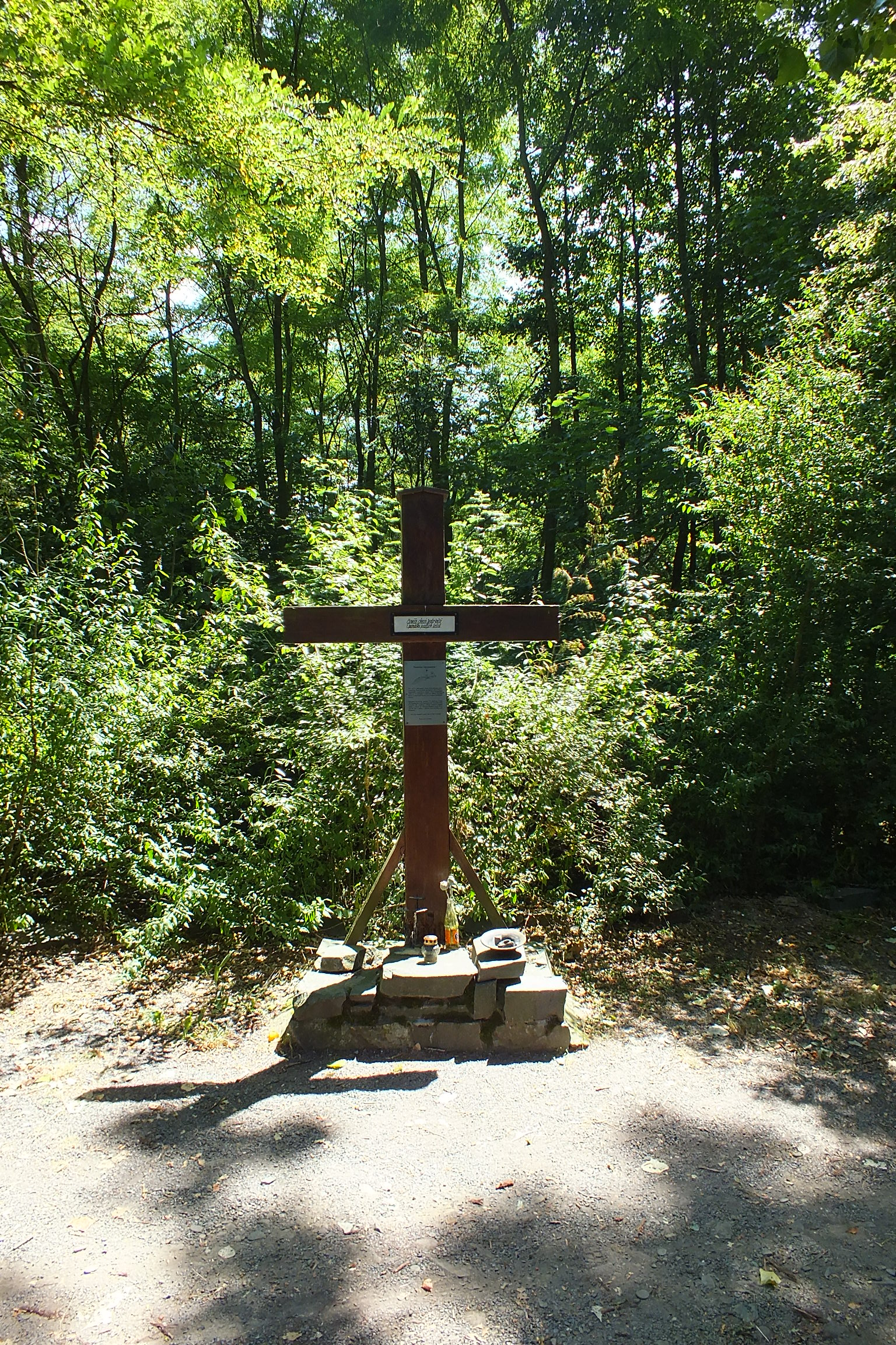 Memorial of American pilots near Bystrovany, the Czech Republic. Seven crew members of a B17 Flying Fortress, part of 99 Bombing Group 347 Squadrons, died nearby when their airplane was shot down by German fighters in an air combat above the city of Olomouc. The captain of the plane was 2/Lt Sherwood P. Ruster.